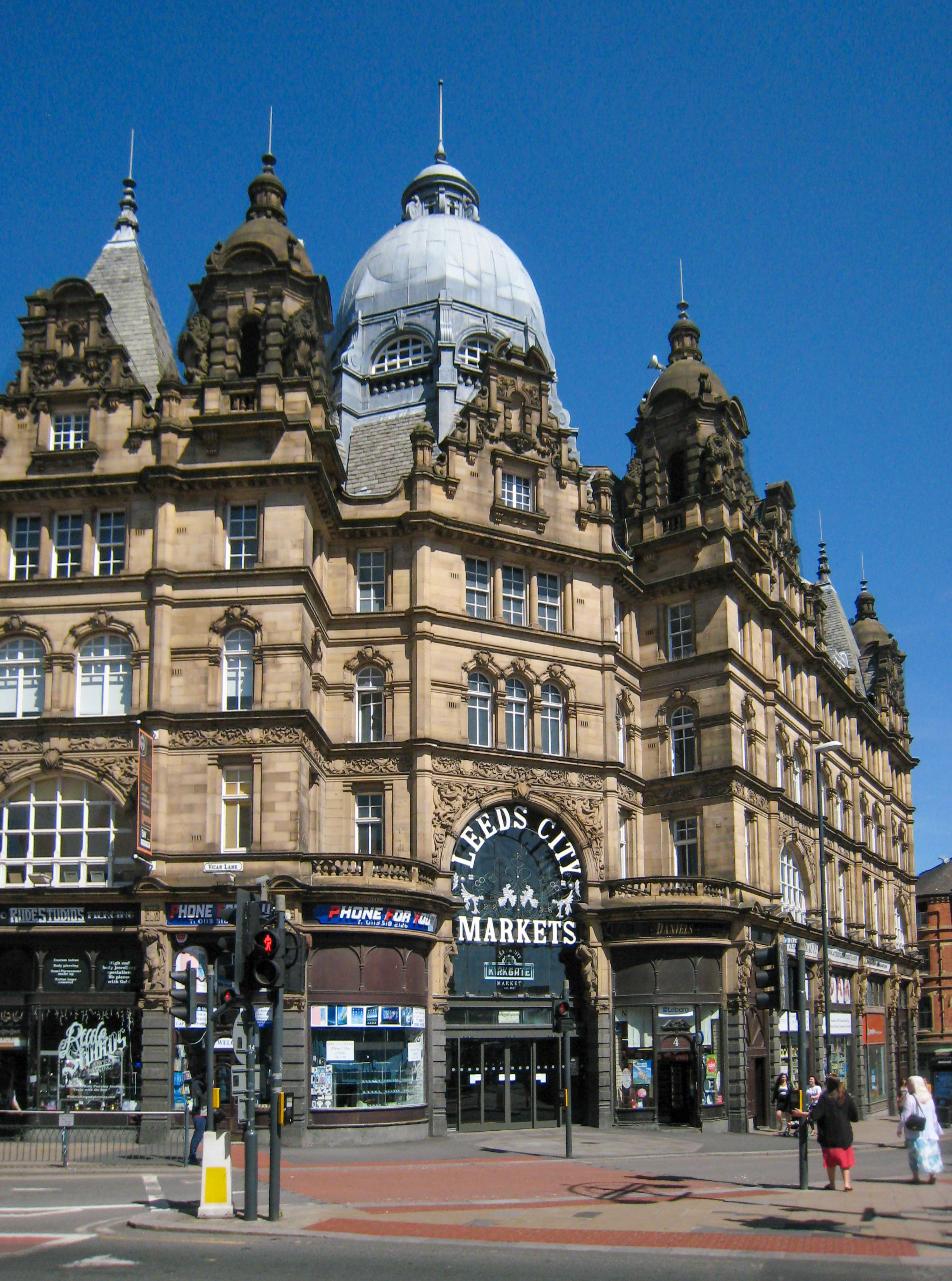 Leeds City Markets, corner of Vicar Lane (left) and Kirkgate (right) viewed from New Market Street.